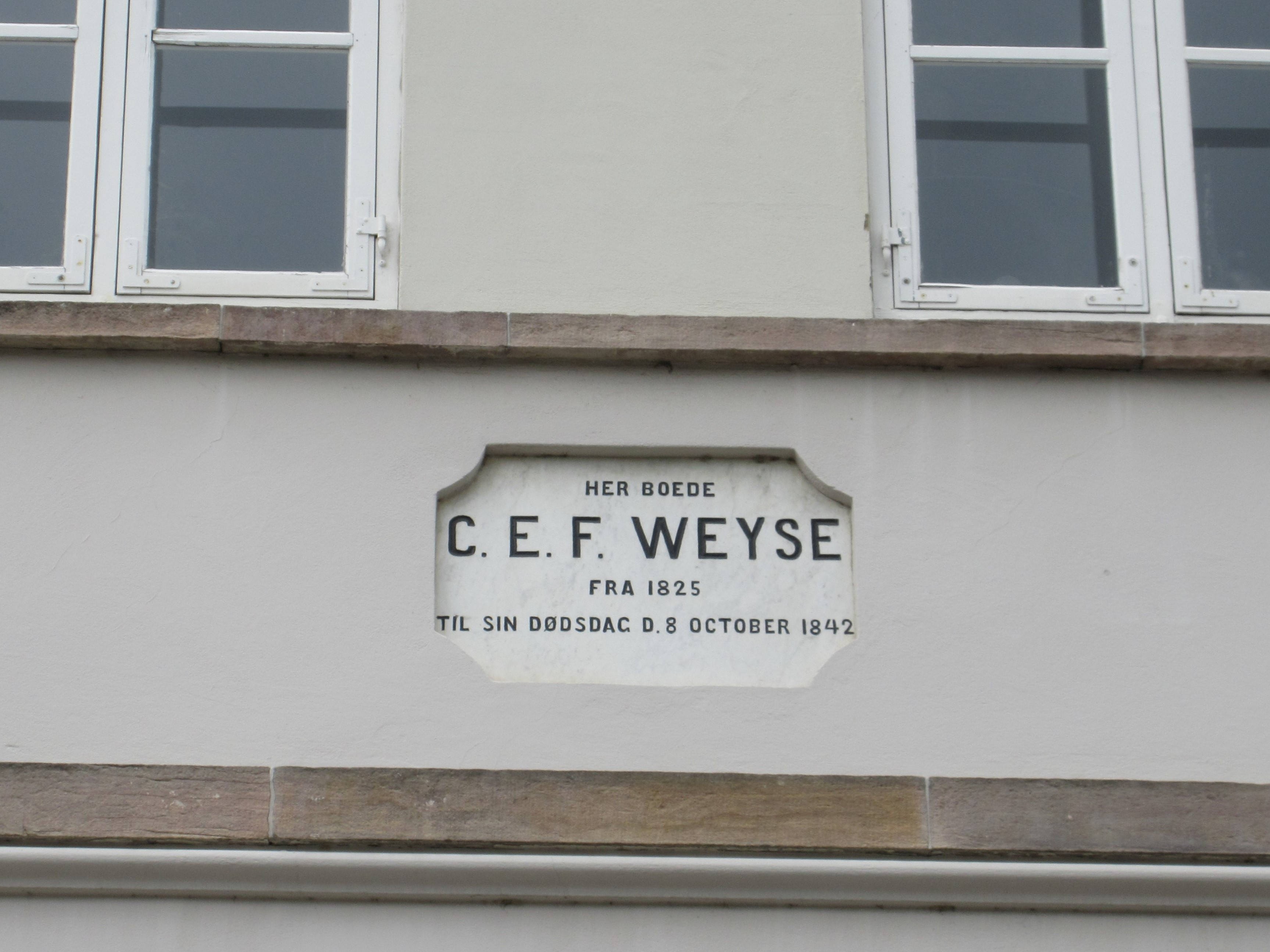 Weyse plaque at Kronprinsessegade 36 in Copenhagen, Denmark